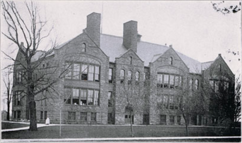 An undated photograph of East High School's second building, known as "the hilltop school," published in the school's 1921 Aeroplane yearbook.